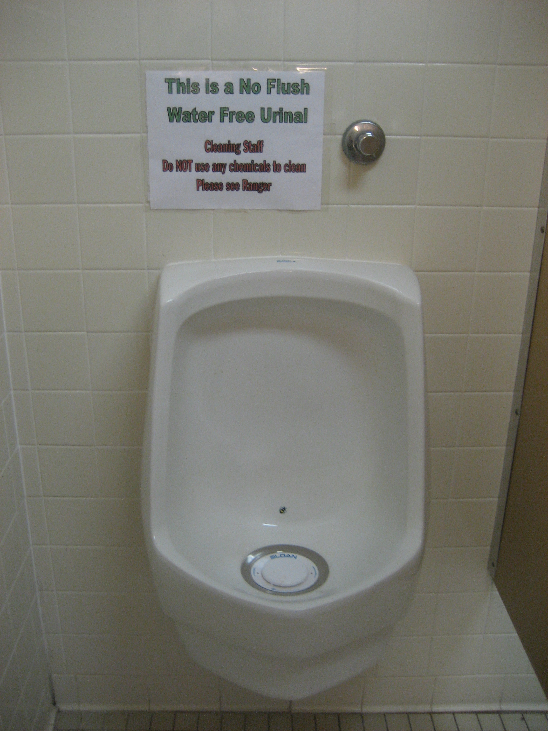 No flush urinal. Photographed in Tampa, Florida.